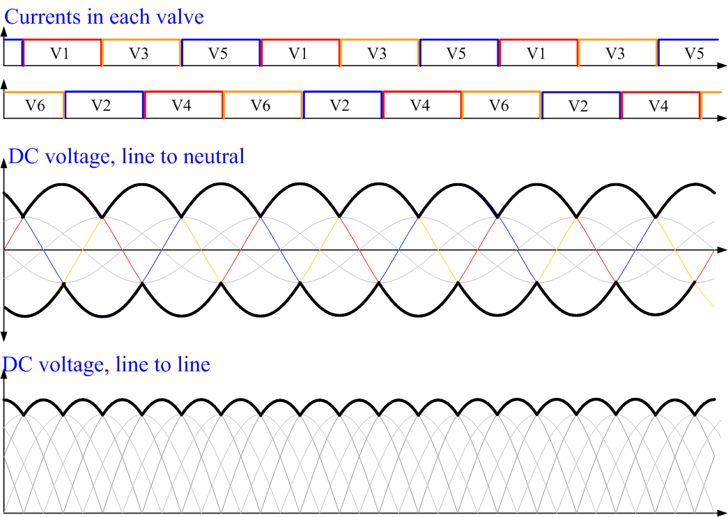 Voltage and current waveforms from a three-phase Graetz bridge rectifier with diodes, or with thyristors at alpha=0, ignoring the effect of overlap.